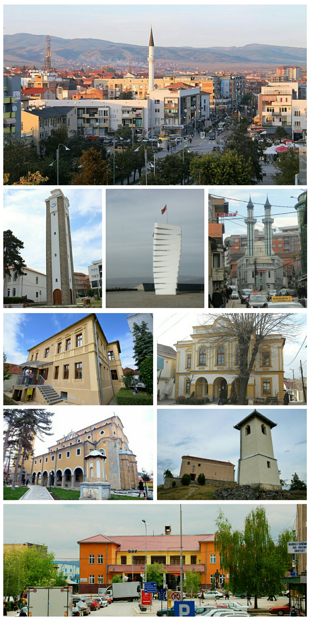 Gnjilane- photomontage (View on the center of Gnjilane, Clock tower in Gnjilan, Monument on the Martyrs' Cemetery in Gnjilane, One of mosques in Gnjilane, Conservatory of Gjilane, Museum of Gjilane, Church of St. Nicholas, St. Nicholas Monastery, Theater in Gnjilane)